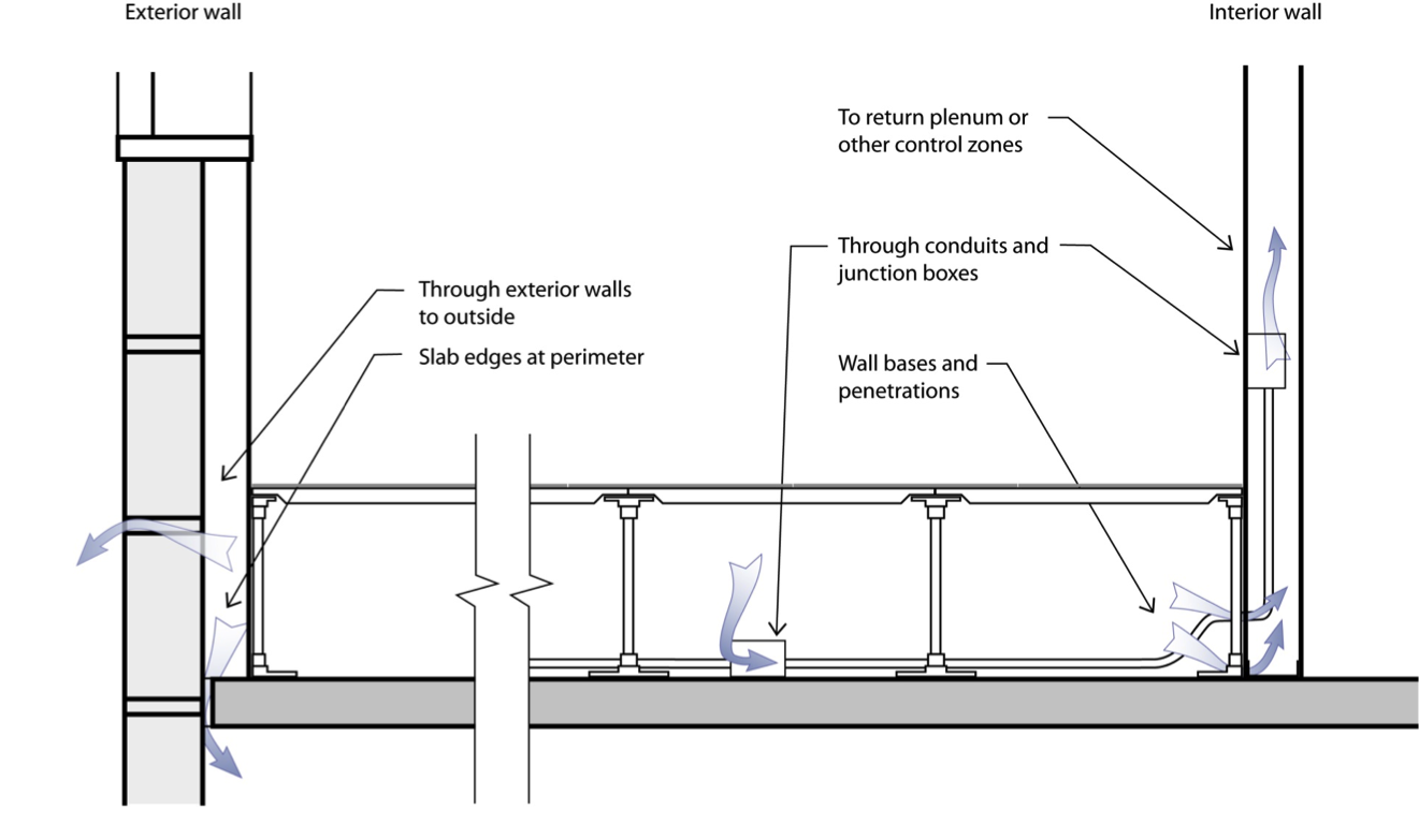 Diagram of Underfloor air distribution bad leakage source